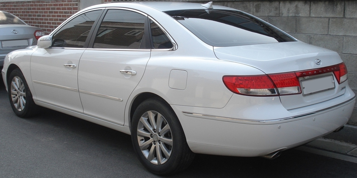 Hyundai Grandeur